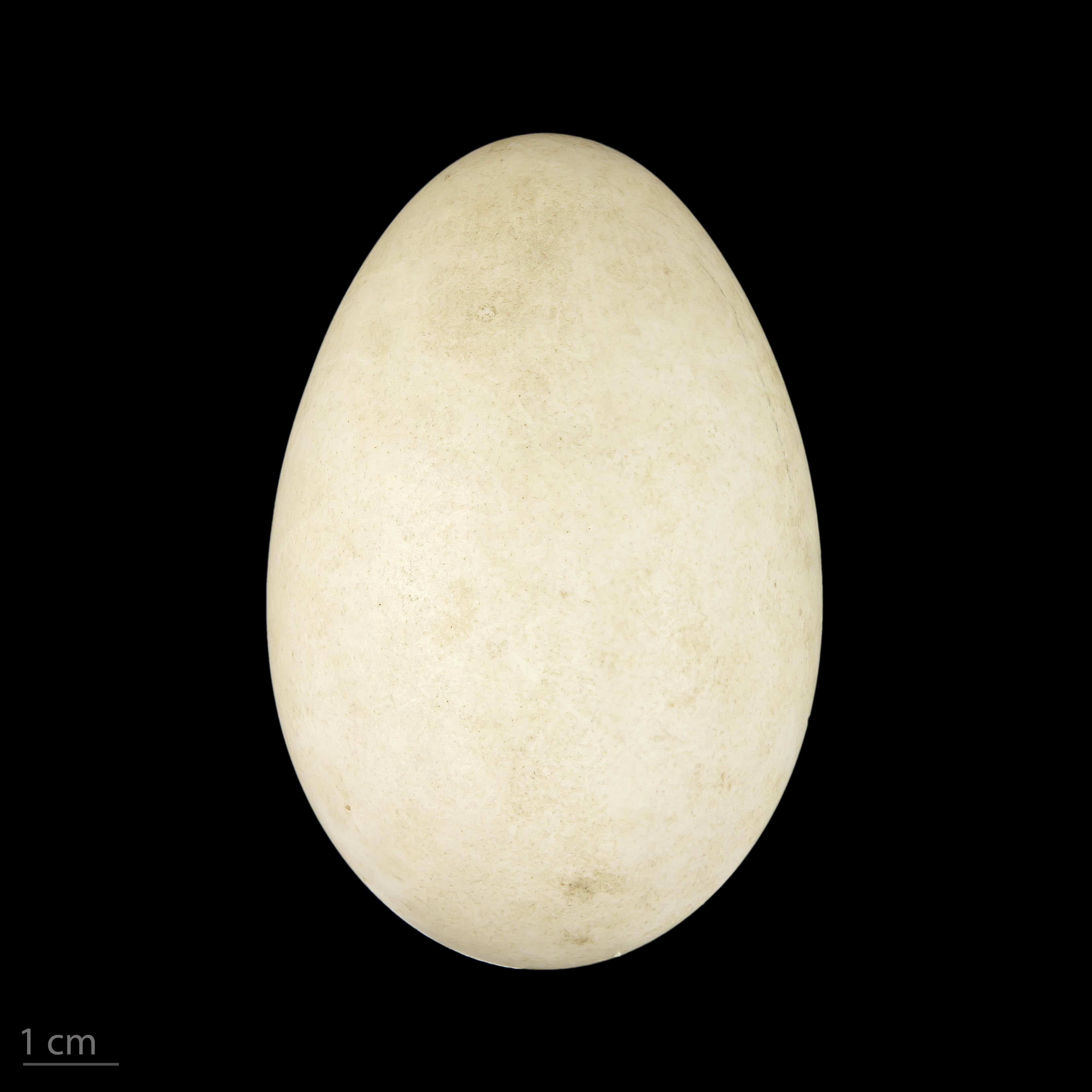 Egg of upland goose Collection of Jacques Perrin de Brichambaut.